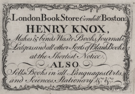 Trade card: "London Bookstore Cornhill Boston. Henry Knox, makes & binds waste books, journals ..." Hurd, Nathaniel, 1730-1777, engraver.